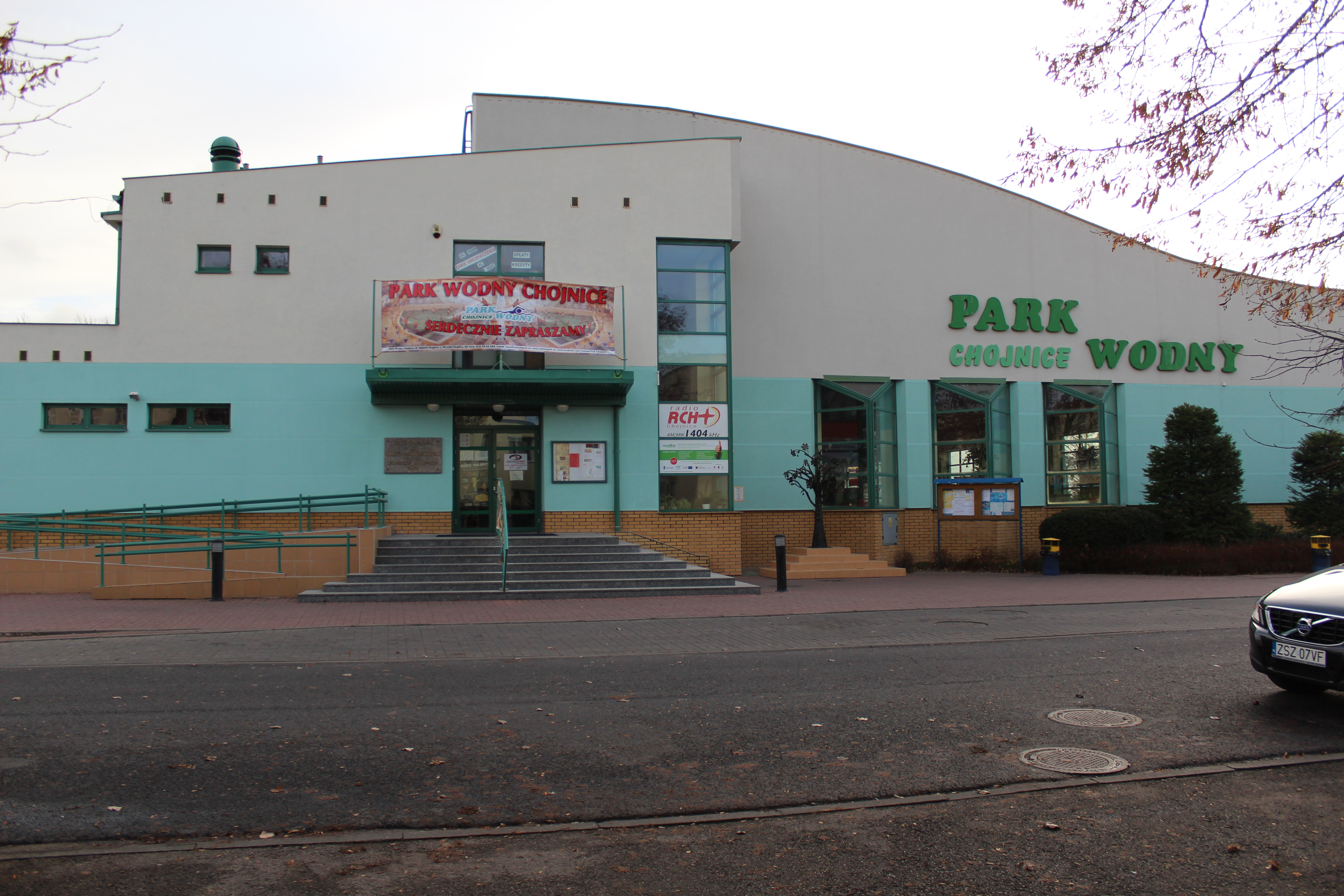 Water Park in Chojnice